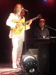 Neil Harrison of the Bootleg Beatles (playing John Lennon), live at "Marvellous Festivals", Wellington Country Park, Reading, Berkshire UK.